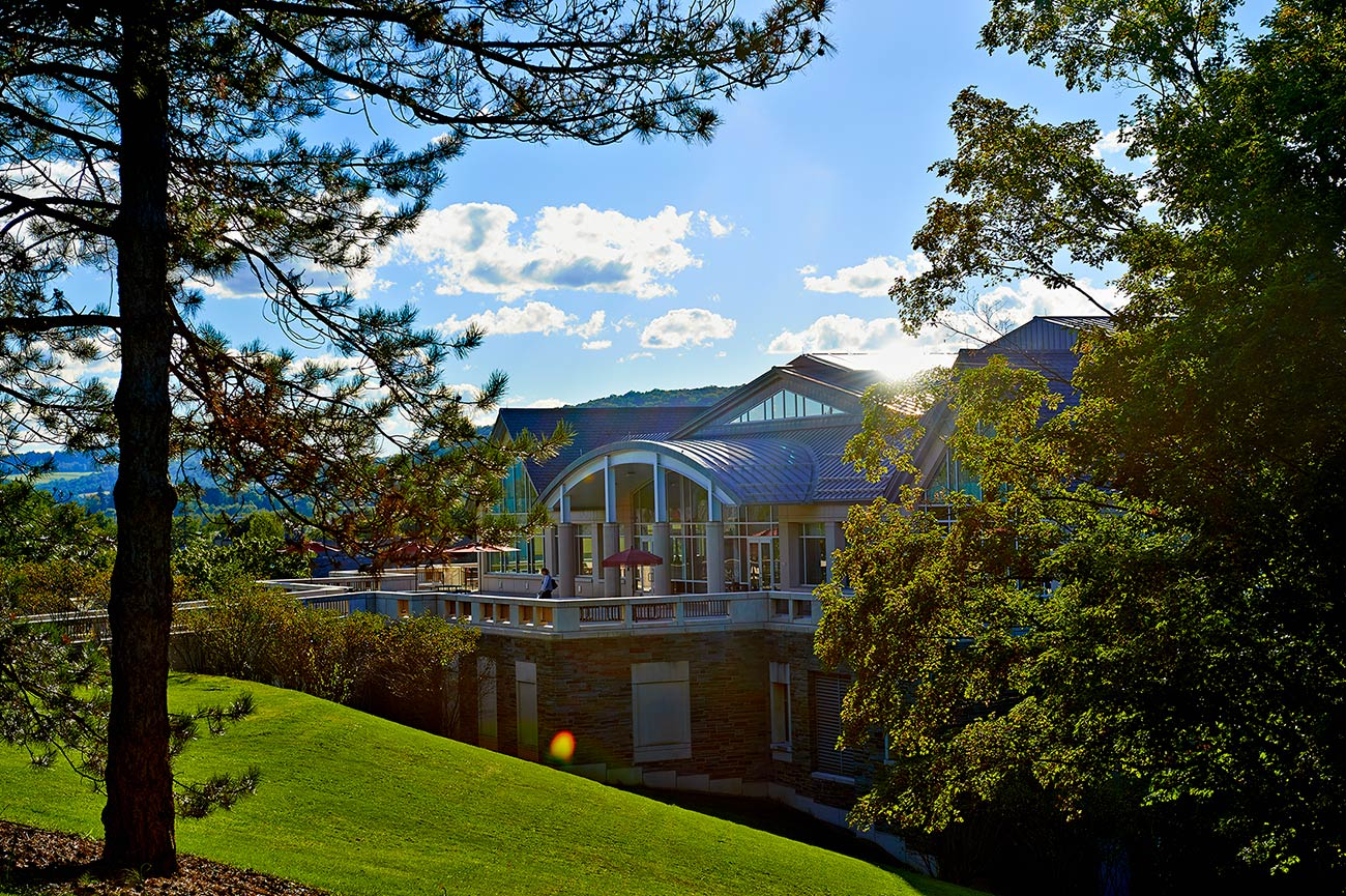 Case Library and Geyer Center for Information Technology is the primary library on the campus of Colgate University in Hamilton, NY